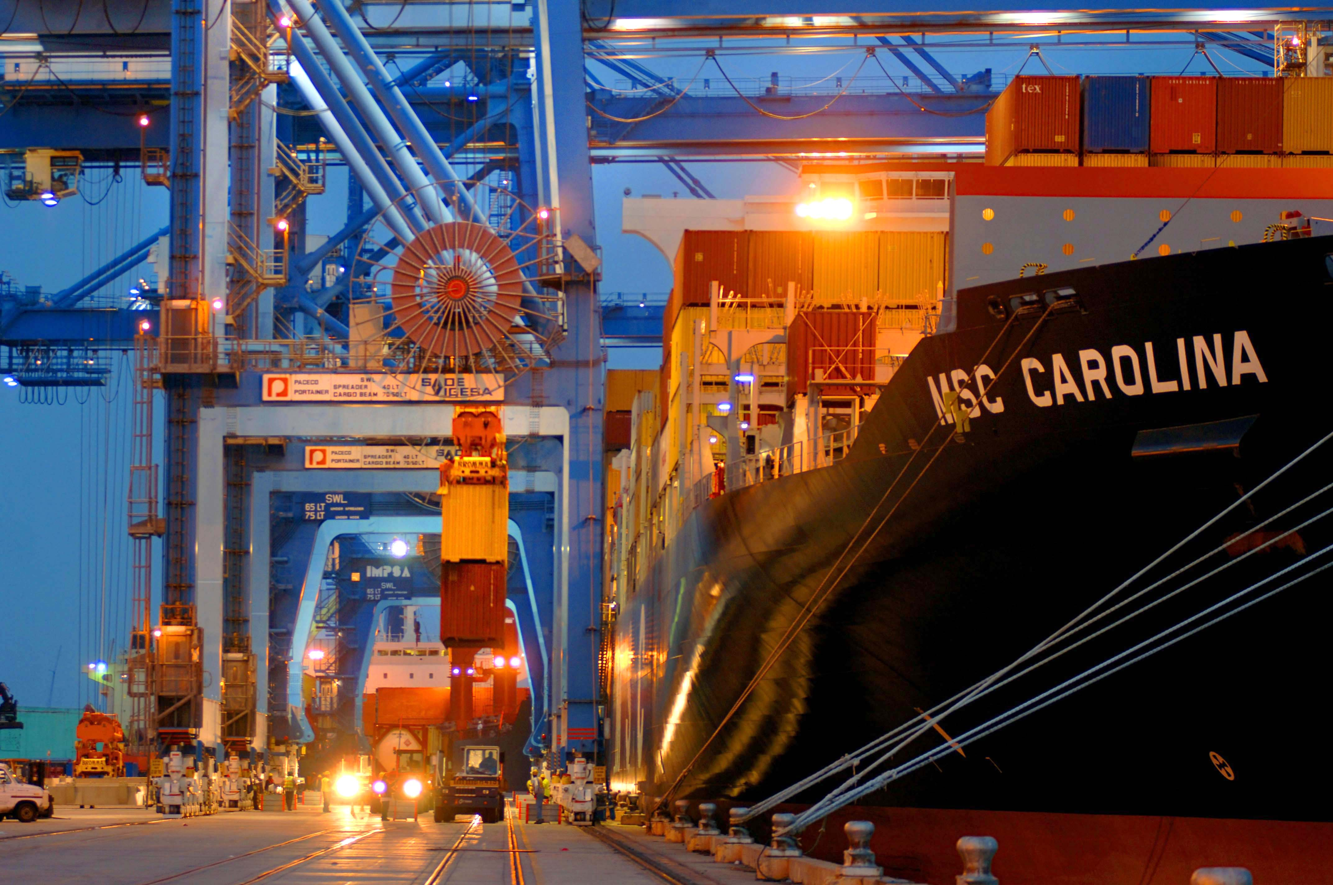 Container ship is unloaded at the Napoleon Avenue terminal at the Port of New Orleans.